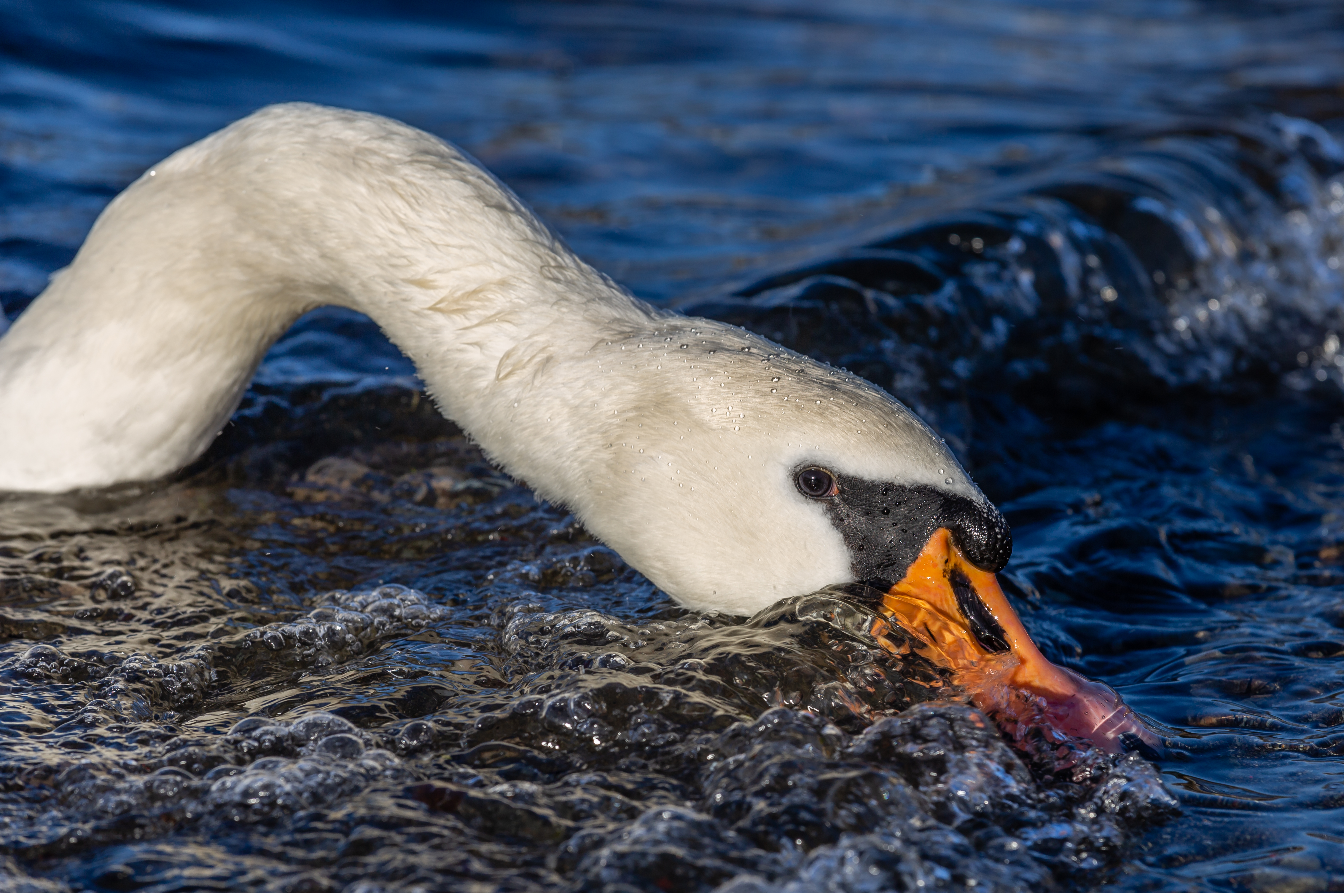 Mute swan (Cygnus olor) looking for food in the waves of the lake Windermere. Bowness-on-Windermere, England